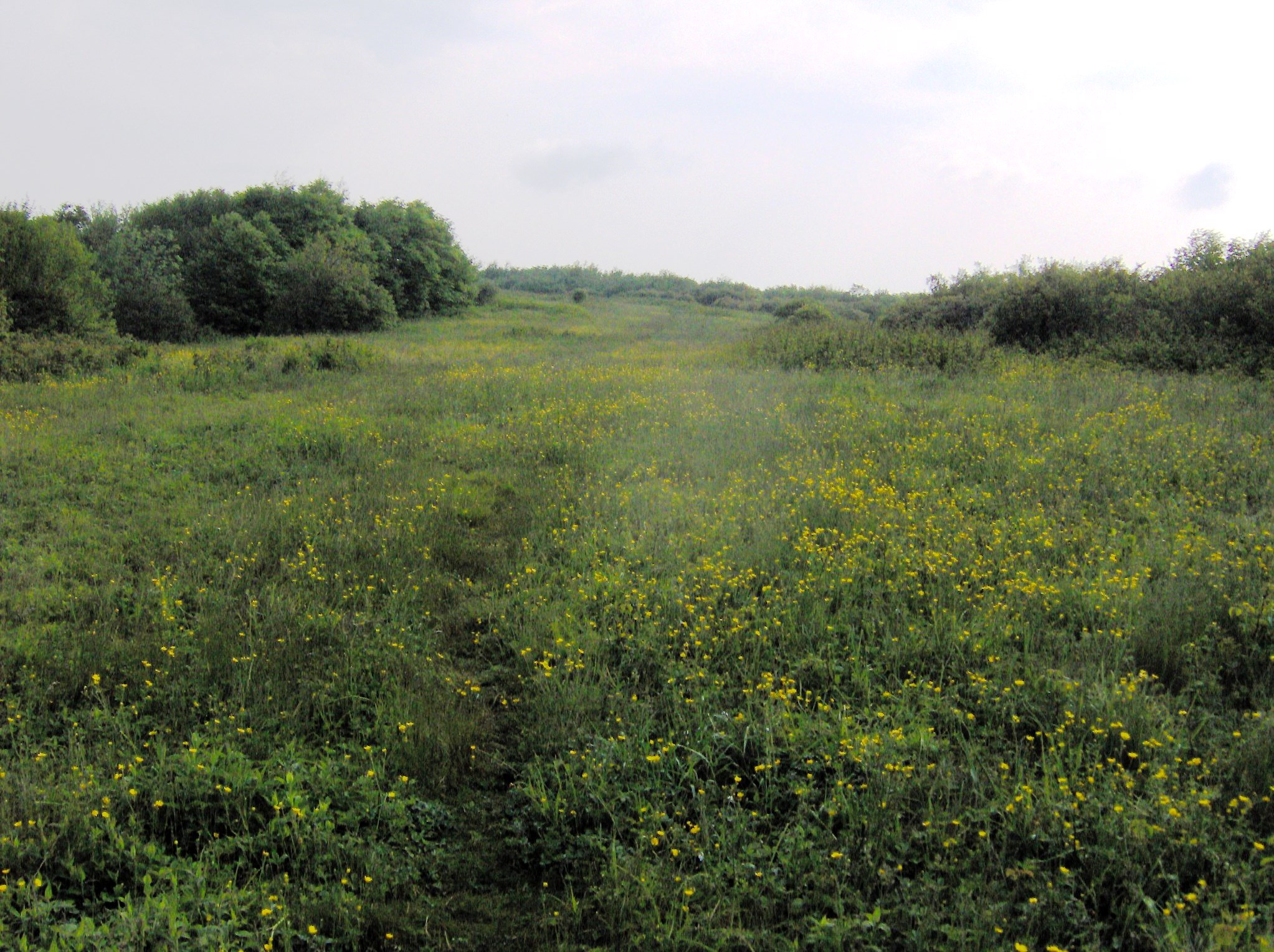 The summit of Hooper Bald (el. 5429ft/1655m) in the Unicoi Mountains of the southeastern United States. Hooper Bald is a grassy bald, a type of highland meadow that occurs throughout the southern Appalachian Mountains.